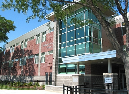 St. Mary's in Lynn, Massachusetts, is a Catholic college-preparatory school serving students in grades 6-12 in 30 communities on the North Shore of Boston.